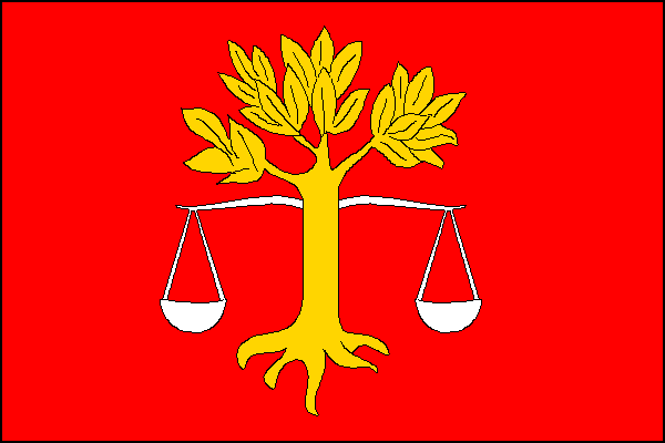 Municipal flag of Bělá pod Pradědem village, Jeseník District, Czech Republic.